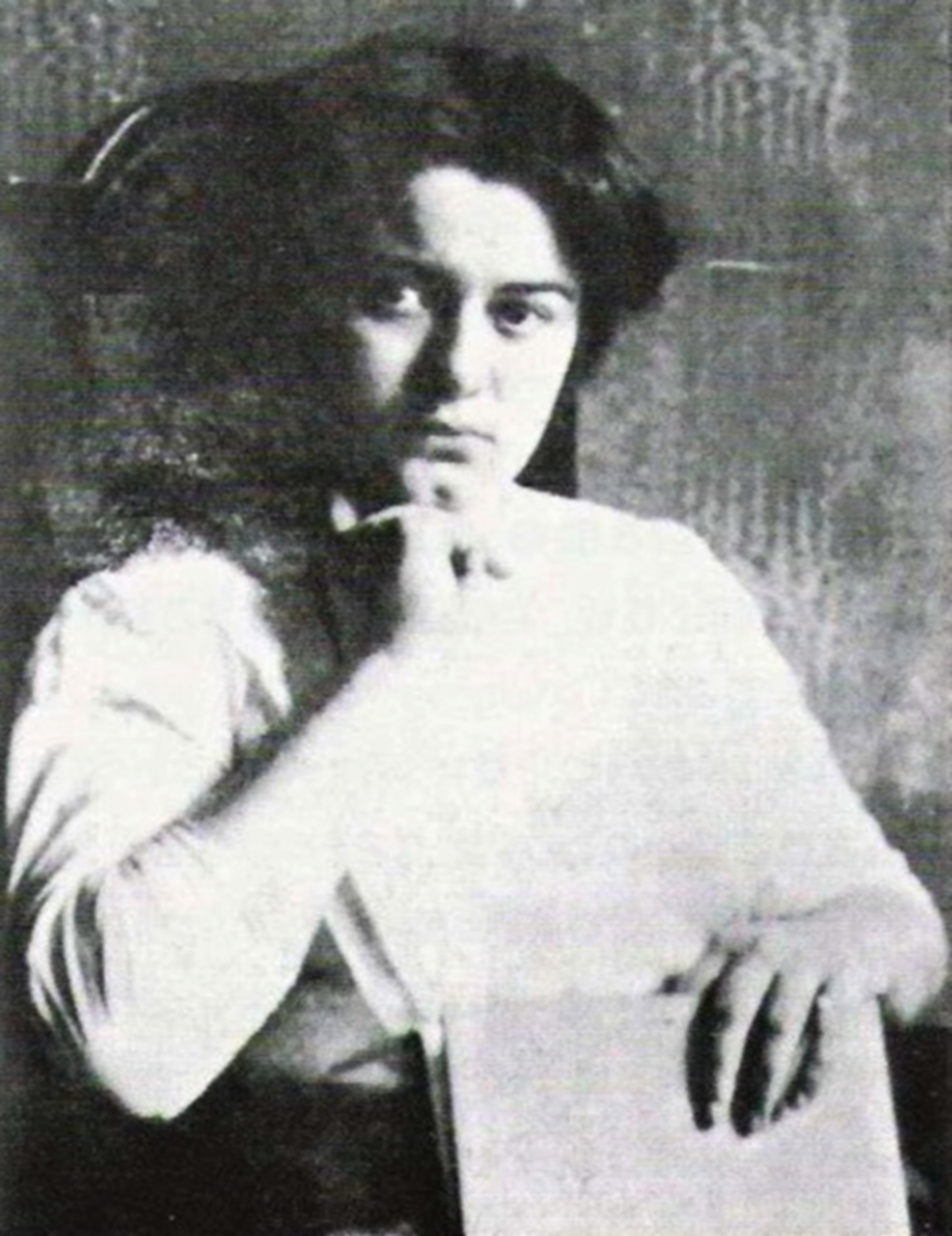 Edith Stein, student at Breslau (1913-1914).